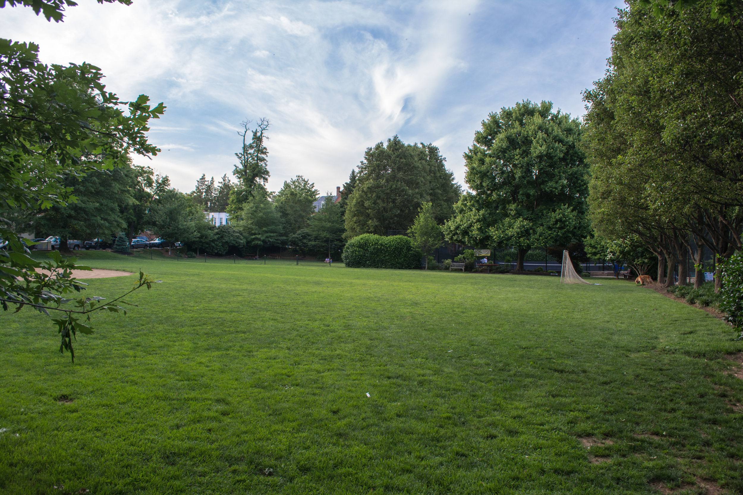 Looking north through the middle of Volta Park in Washington, D.C., in the United States. Volta Park was created in 1909 on top of the Prebyterian Burying Ground. (Some 2,000 bodies remain there.) The park was created at a time when there was a national movement to create playgrounds and parks in cities throughout the United States in the belief that "cities were bad for you" and "you needed to commune with nature in order for democratic values to be instilled in you". The city paid $30,000 ($787,000 in 2014 dollars) for the land and another $5,000 ($131,2500 for playground equipment. A 2,441-square-foot recreation center with small swimming pool was built there in 1949, and in 1979 two basketball courts and two tennis courts were added. In 2004, the D.C. Department of Parks and Recreation (DPR) rebuilt the rec center for about $400,000. In July 2013, a new $400,000 playground opened in the park.